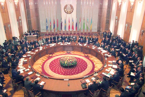 MINSK. An expanded meeting of the Council of CIS Heads of State.